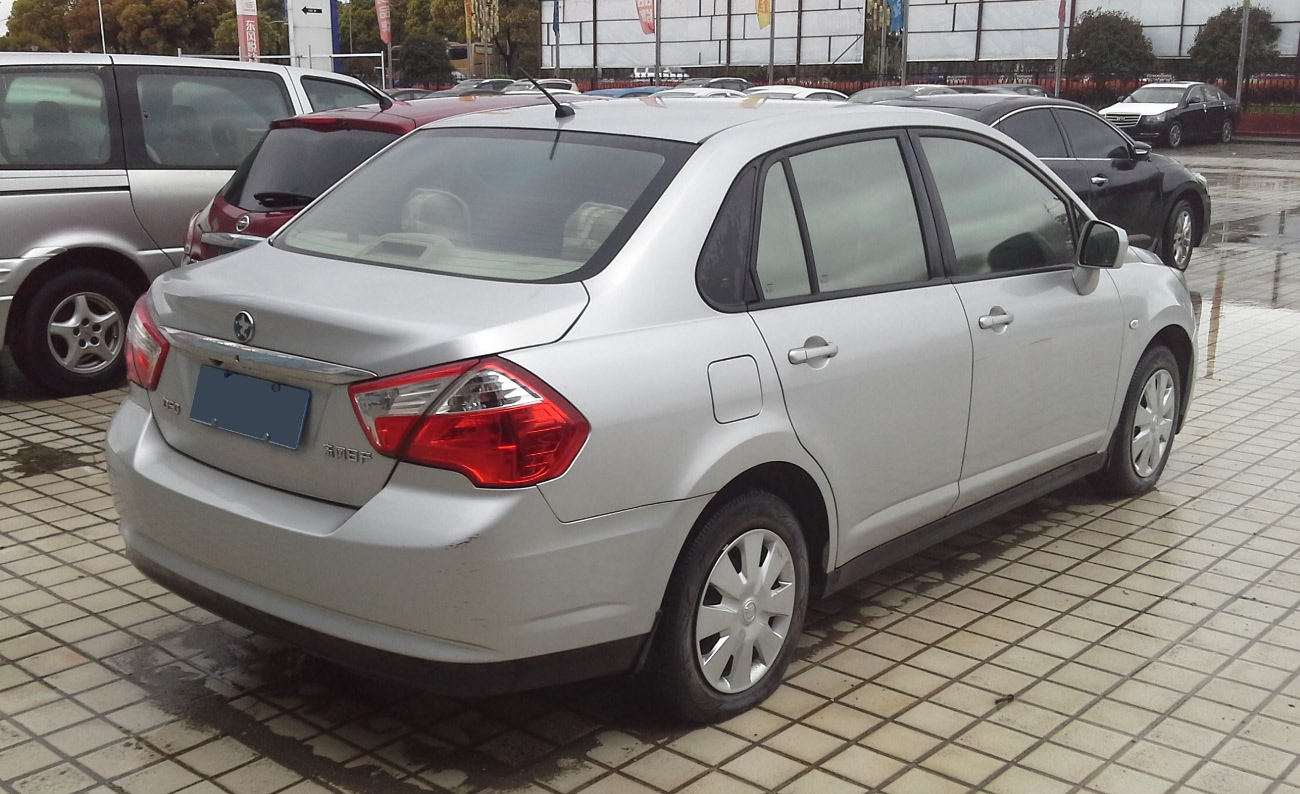 Venucia D50 photographed in Shanghai, China.